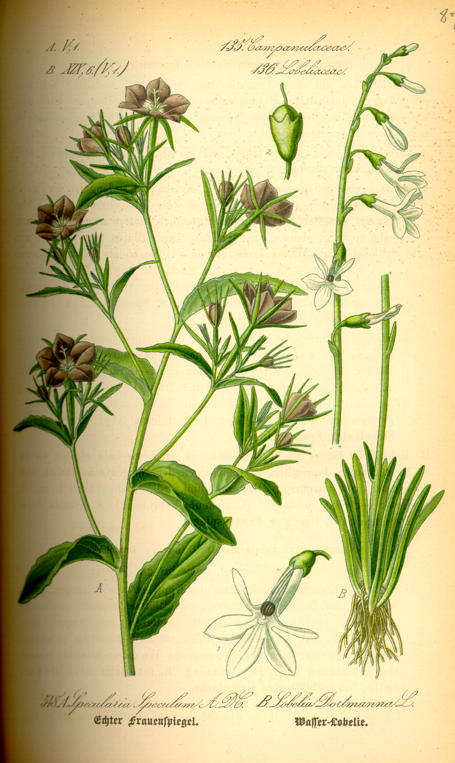 Species Legousia speculum-veneris (left) - Lobelia dortmanna (right) Familia Campanulaceae Original book source: Prof. Dr. Otto Wilhelm Thomé Flora von Deutschland, �sterreich und der Schweiz 1885, Gera, Germany Permission granted to use under GFDL by Kurt Stueber